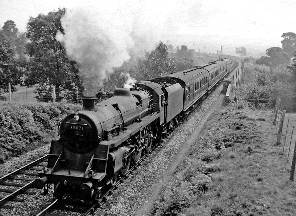 Northbound Somerset & Dorset train climbing up from Shepton Mallet at Windsor Hill. View SE, towards Shepton Mallet, Templecombe and Bournemouth; S&D line, Bath - Templecombe - Bournemouth West. This stretch was a hell of a climb, about 8 miles at 1-in-50 from Evercreech Junction (with a short break at Shepton Mallet) to the Mendips summit at Masbury; the southbound climb from Radstock was almost as tough. The train is the 12.00 stopping-train from Templecombe to Bath (Green Park), by then with modern motive-power, BR Standard 4MT 4-6-0 No. 75071.